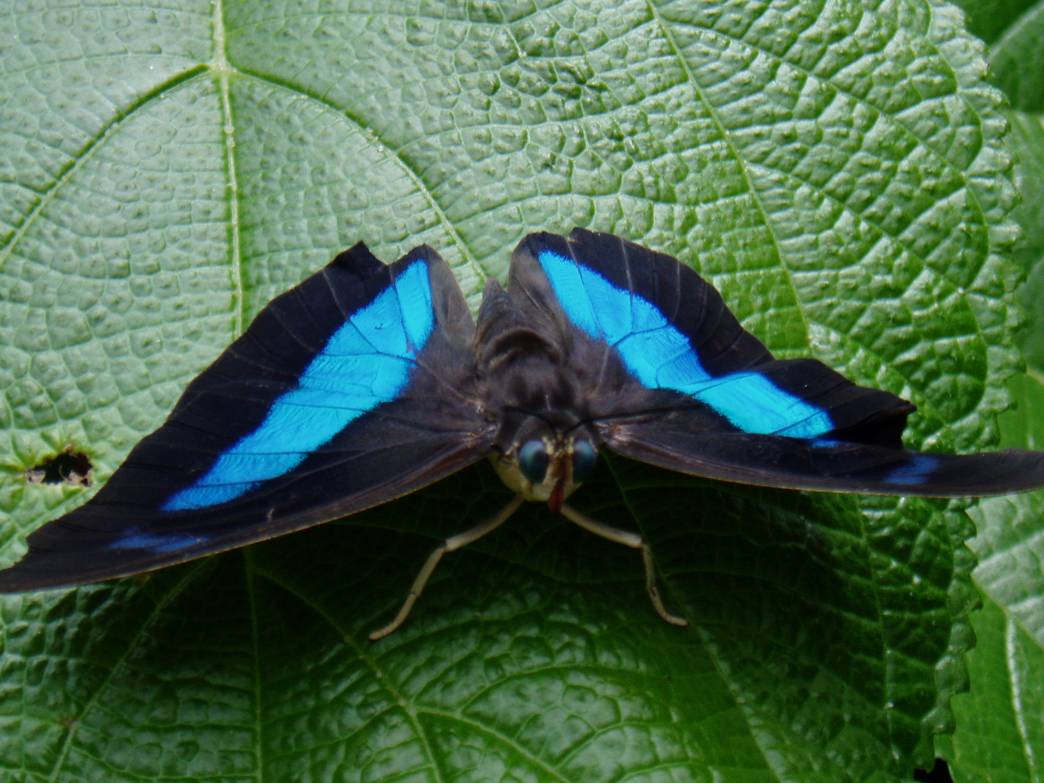 Image taken at Butterfly World One-spotted prepona Archaeoprepona demophon